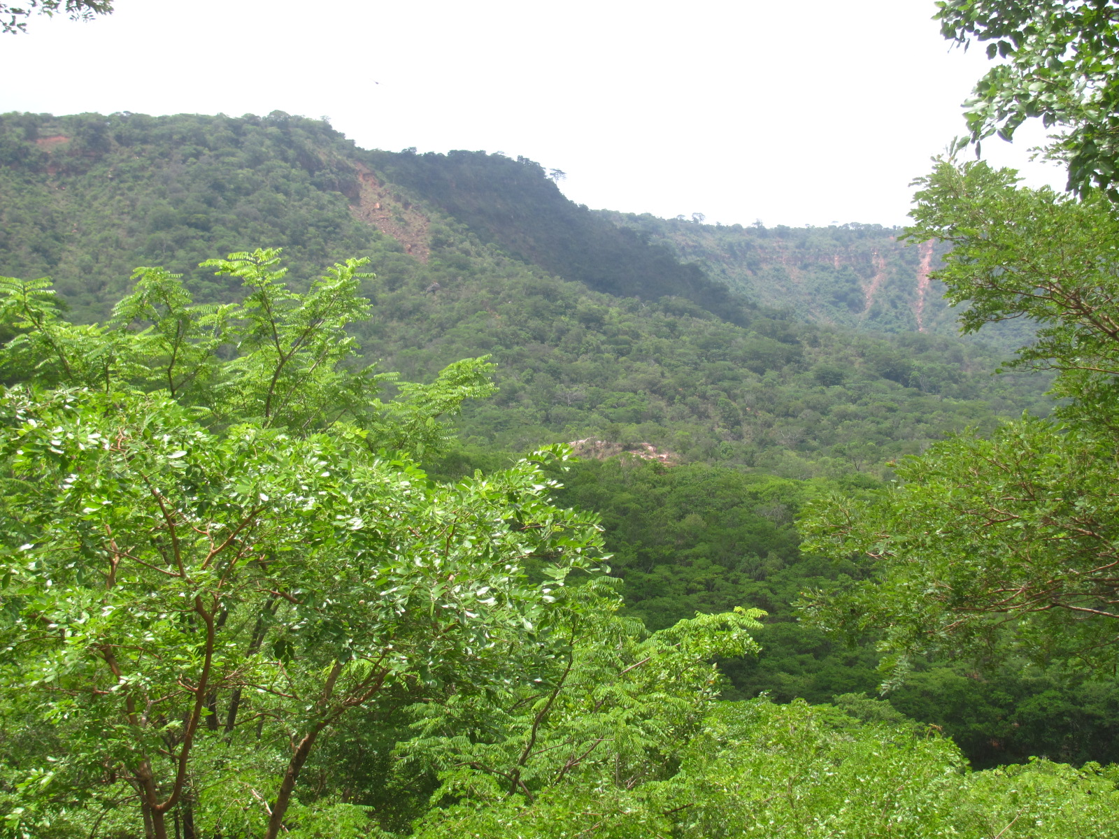 Here are steep slopes and ridges on the side of the Makonde Plateau in Mtwara Region, Tanzania. The brachystegia woodland here is relatively undisturbed and has much biodiversity.